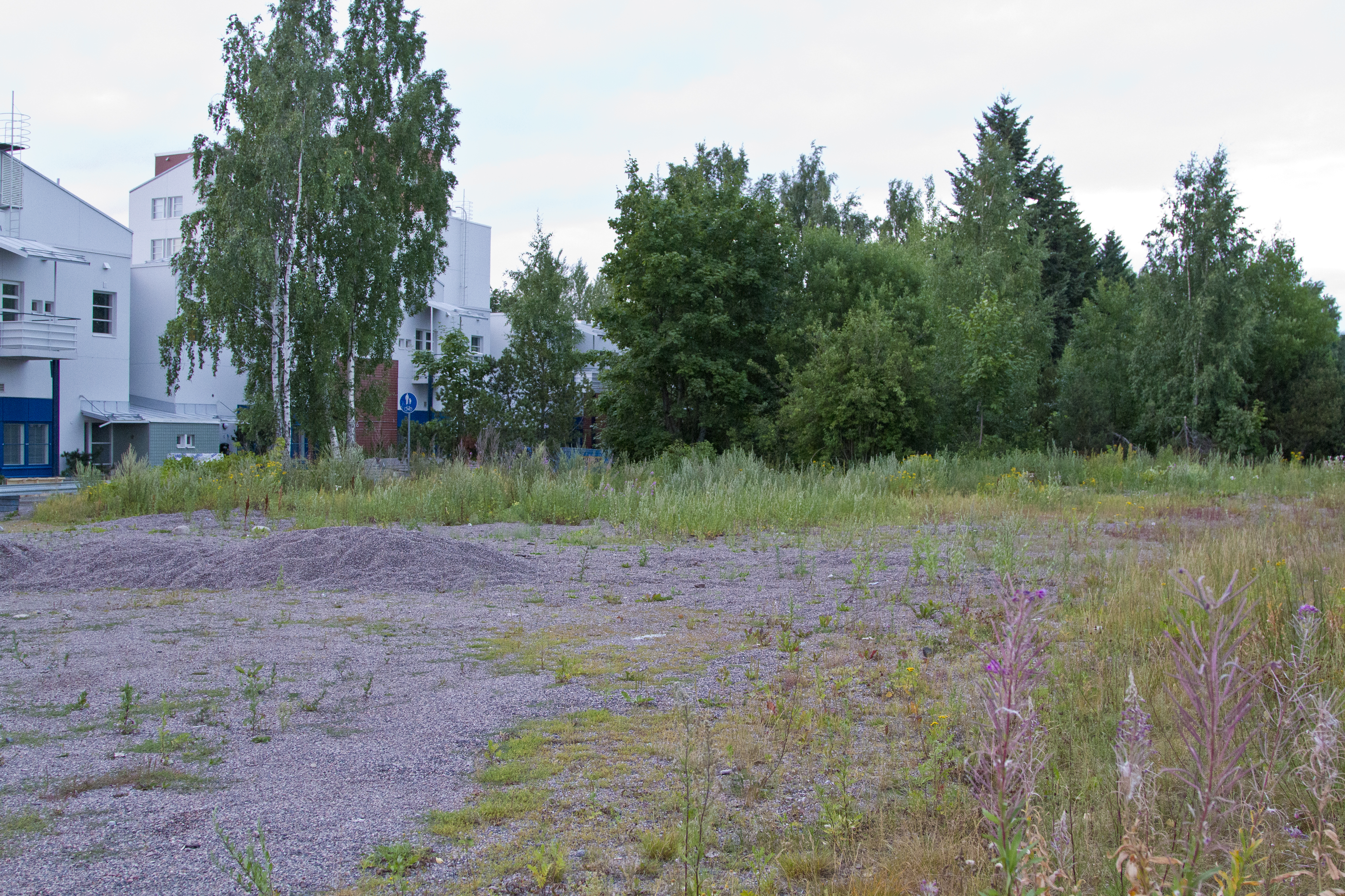 Location of old Pukinmäki railway station